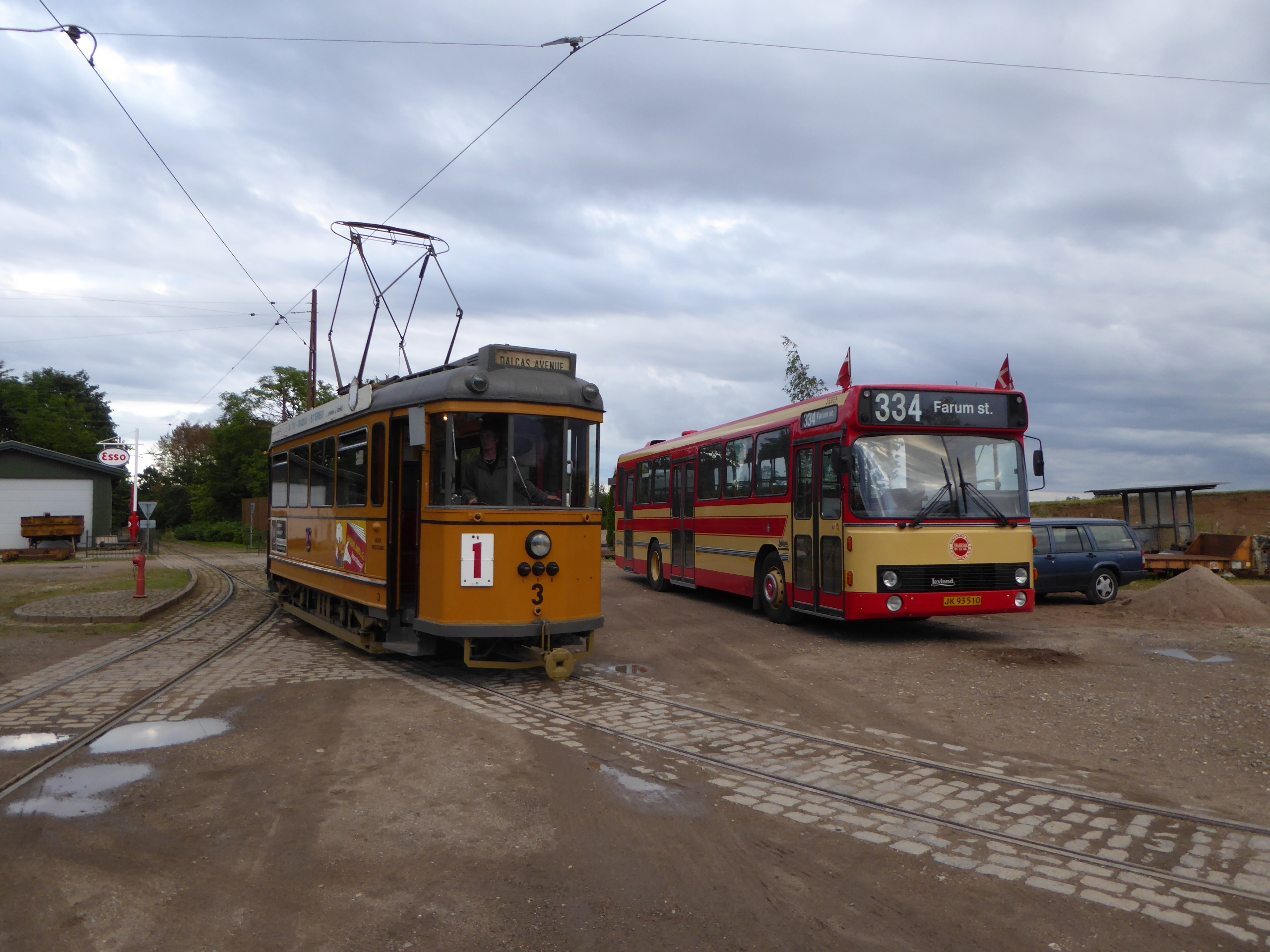 Old trams from Aarhus, ÅS 3, and old bus from Birkerød, BBC 43, at Sporvejsmuseet Skjoldenæsholm in Denmark.